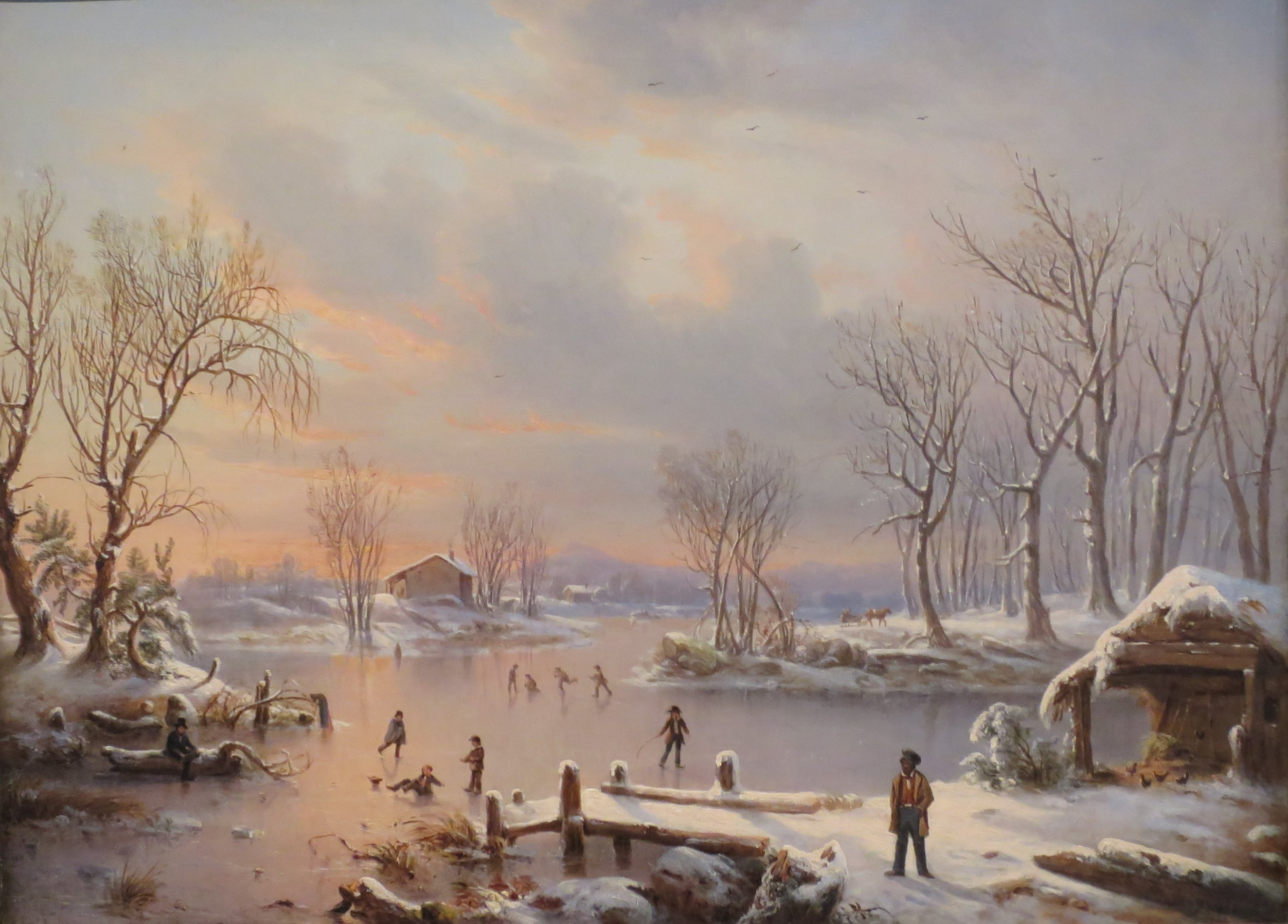 View Near Elizabethtown, N. J., oil painting by Régis François Gignoux, 1847, Honolulu Museum of Art Native nameHonolulu Museum of ArtLocationHonolulu, USACoordinates21° 18′ 14″ N, 157° 50′ 54″ W Established1922Web page control : Q128316 VIAF: 818145858110423022196 ISNI: 0000 0004 4661 5836 LCCN: n2013015284 NRHP: 72000415 GND: 1063109698 WorldCat institution QS:P195,Q128316 accession 4090.1